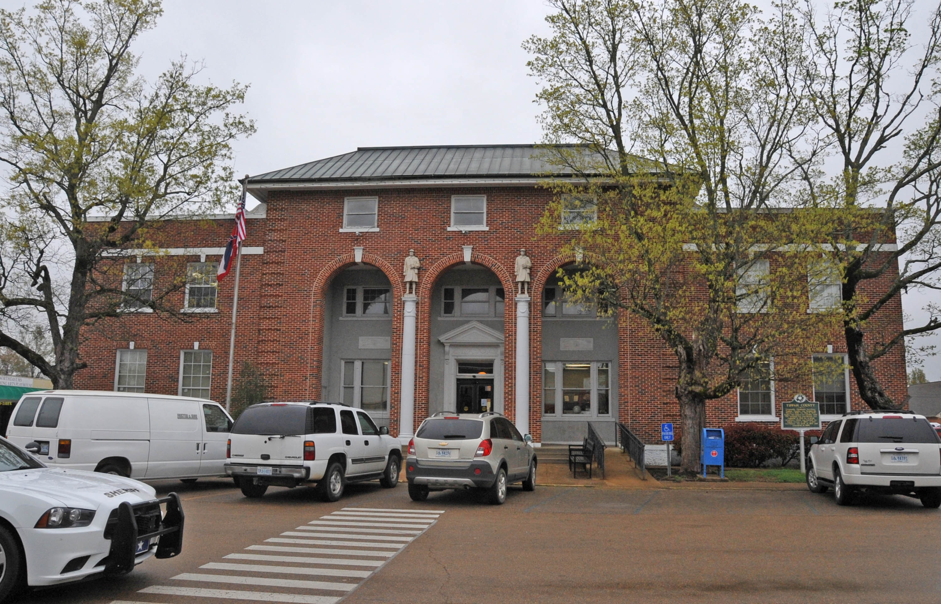 Tippah COUNTY COURTHOUSE BUILT IN 1928